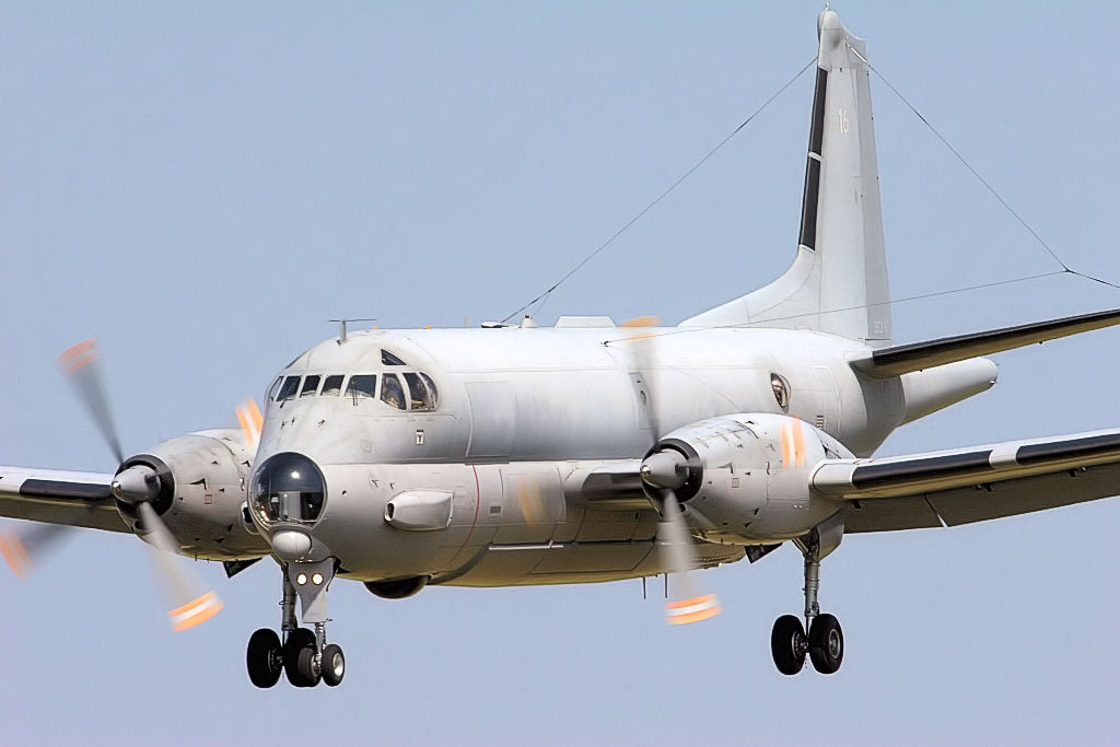 Atlantic - RIAT 2006